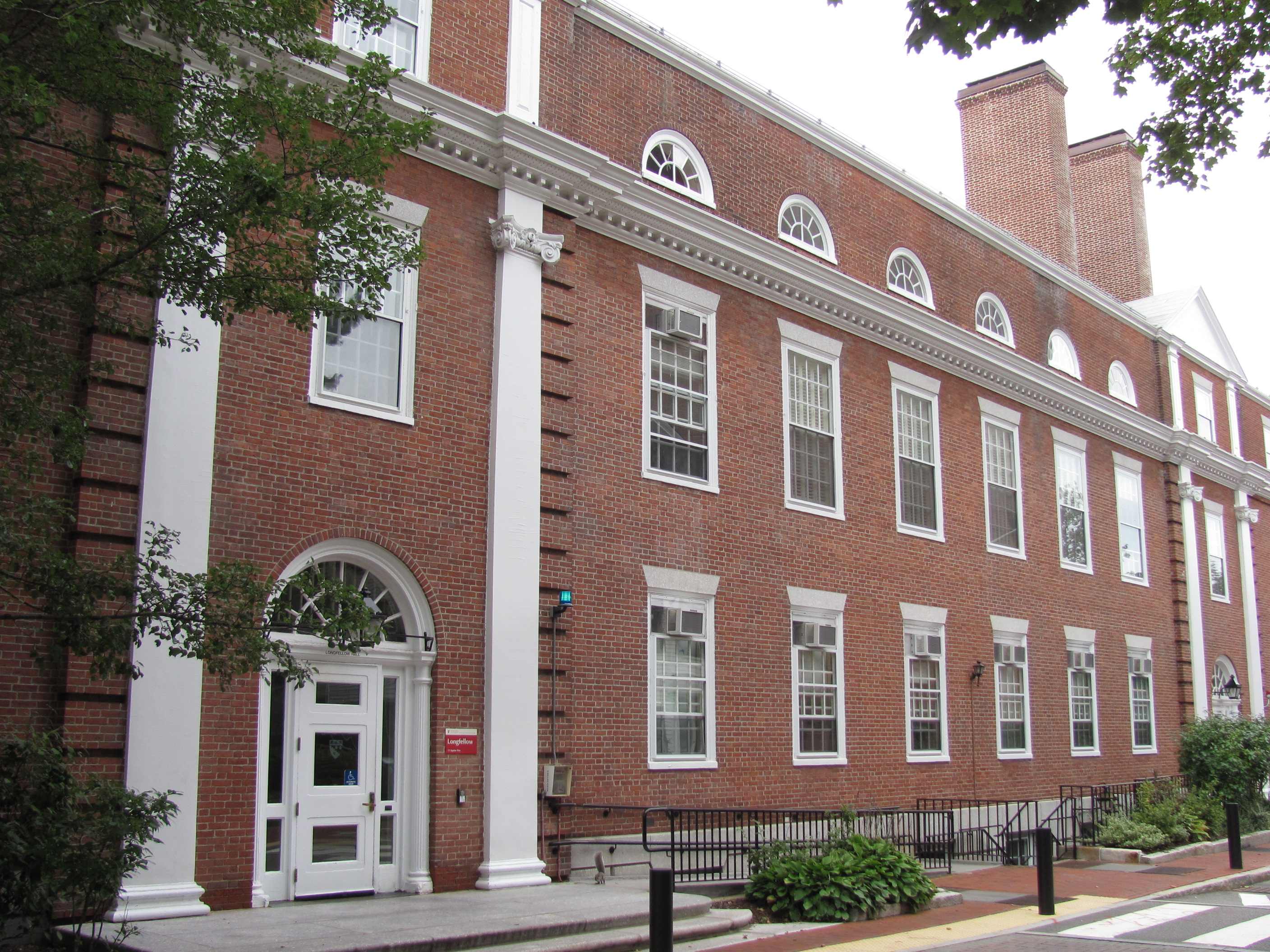 Longfellow Hall, Harvard University, Cambridge Massachusetts